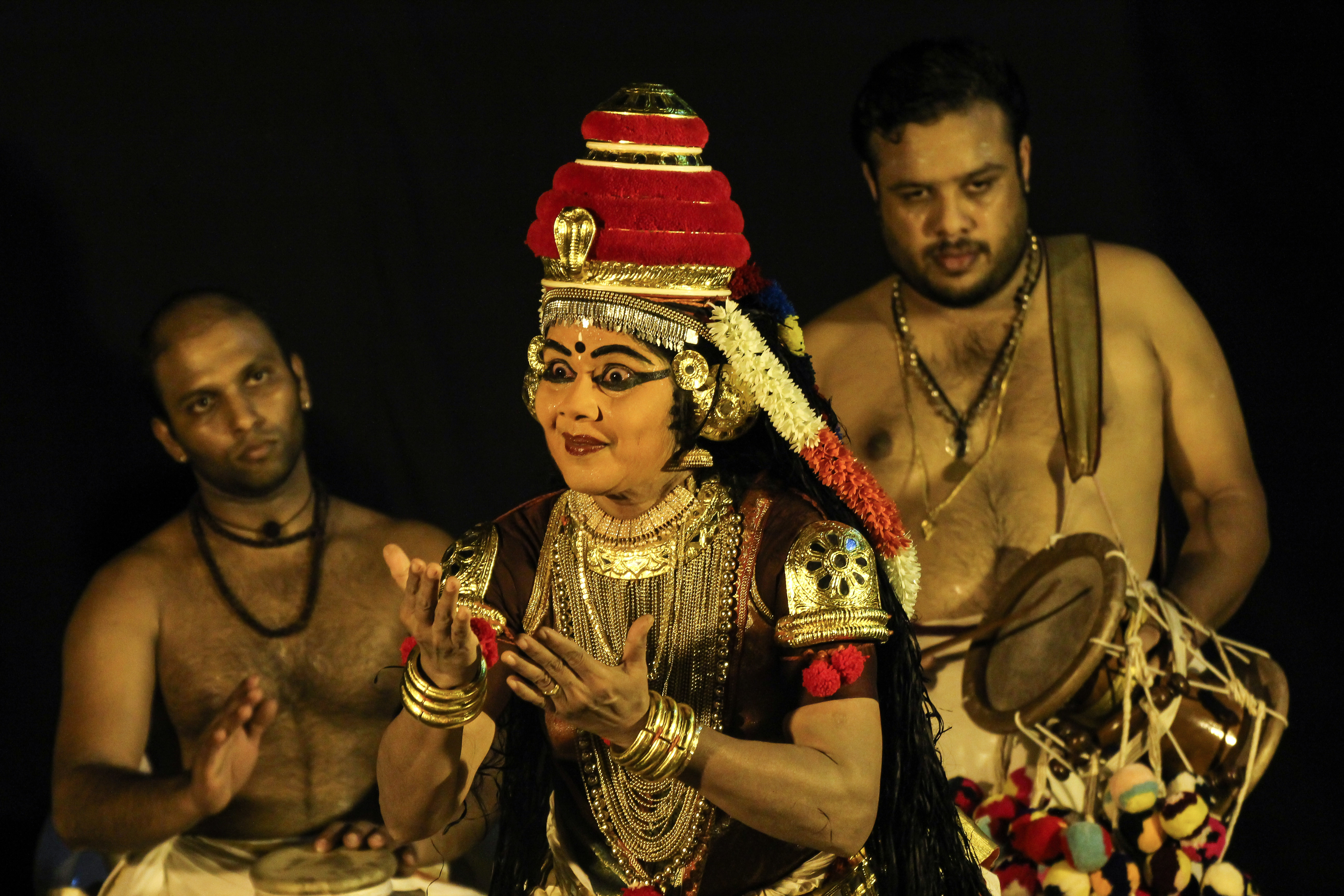 Kalamandalam Girija - Nangiarkooth- Trivandrum